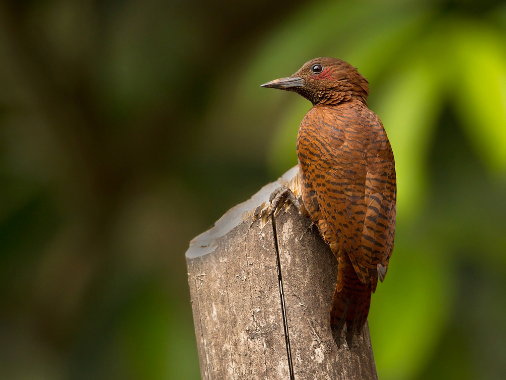 Male Micropternus brachyurus jerdonii. This image was taken in Dandeli, India